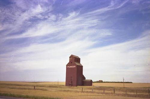 A view of the country side in Stewart Valley, Saskatchewan.